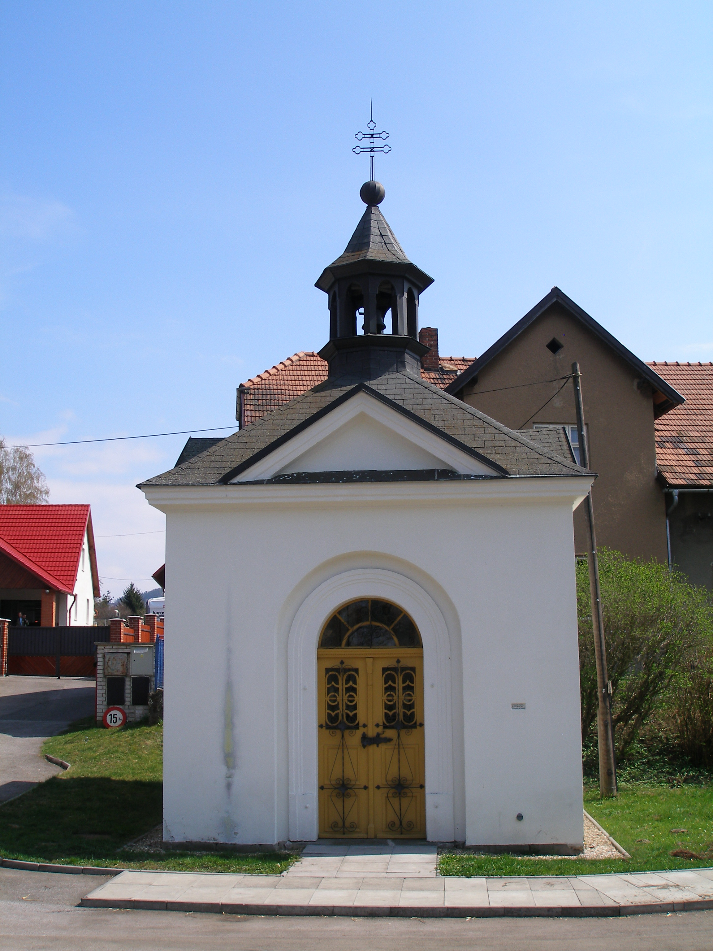 Chapel in Hoškovice.